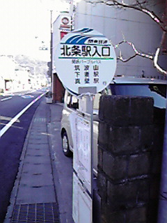 Hojo-eki-iriguchi (Hojo Station entrance) Bus Stop in Tsukuba City, Ibaraki Prefecture, Japan